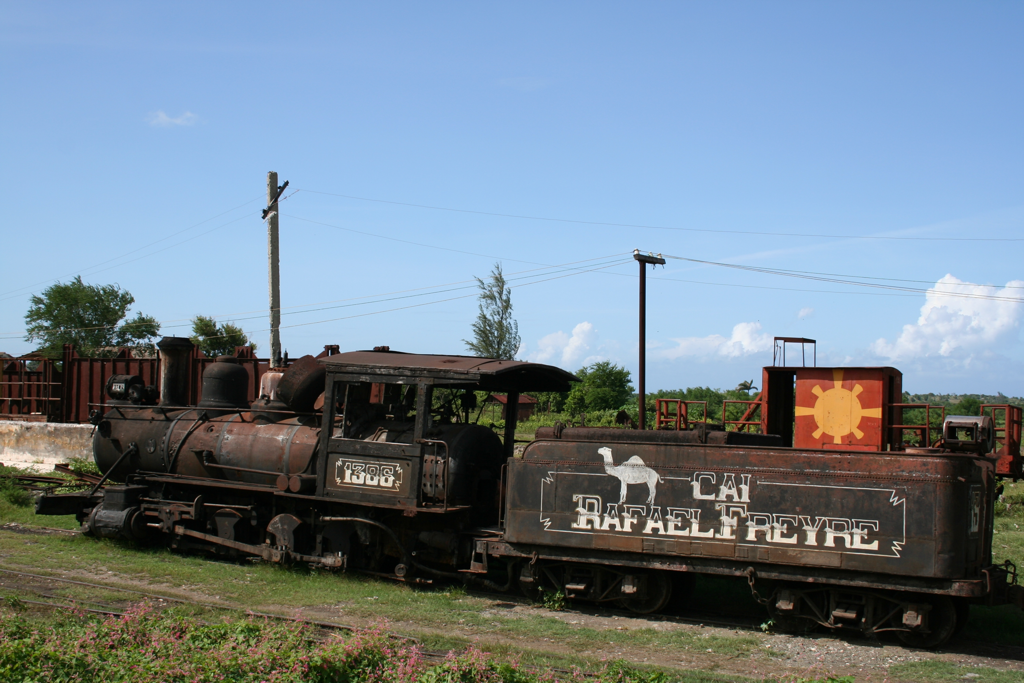 Steam Locomotion Rafael Freyre No.1386 Narrow gauge Baldwin build 1919 (Philadelphia) author: Gerhard Missbach date: 22.09.2005 14:25 location: Rafael Freyre, Cuba